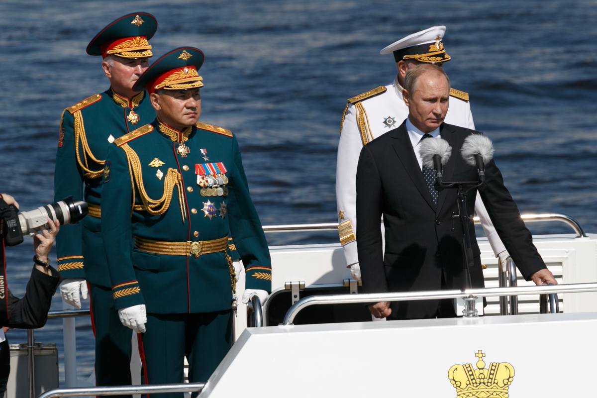 Главный военно-морской парад-2018 в Санкт-Петербурге и Кронштадте